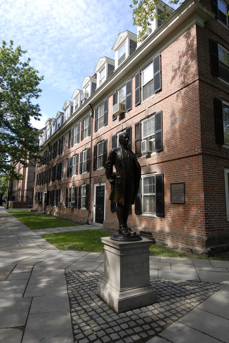 Nathan Hale Statue in front of Connecticut Hall, Yale University